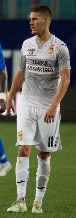 Lovro Bizjak with FC Ufa in a game against FC Dynamo Moscow.